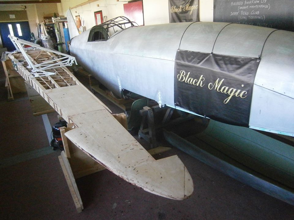 de Havilland DH.88 Comet racer "Black Magic" under-restoration at the Amy Johnson Comet Restoration Centre, Derby Airfield, in 2016